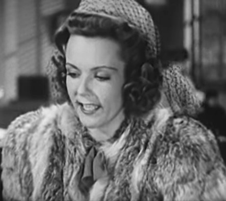 Dorothy Lee in Roar of the Press - cropped screenshot